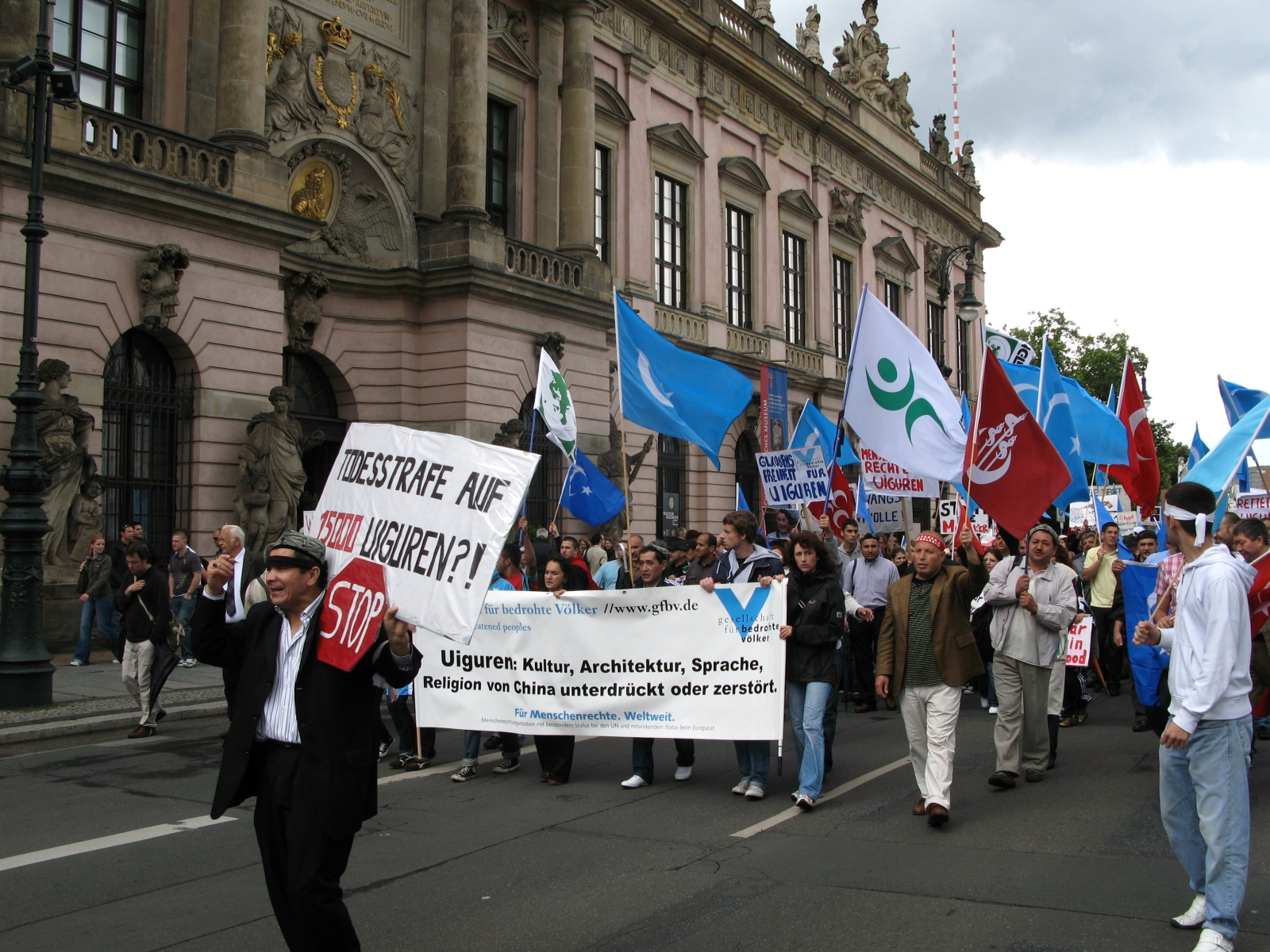 Protest in Berlin following the July 2009 Ürümqi riots